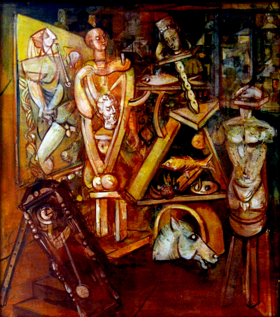 Endre Nemes, Painter and woman (interier), 1937, NG Prague